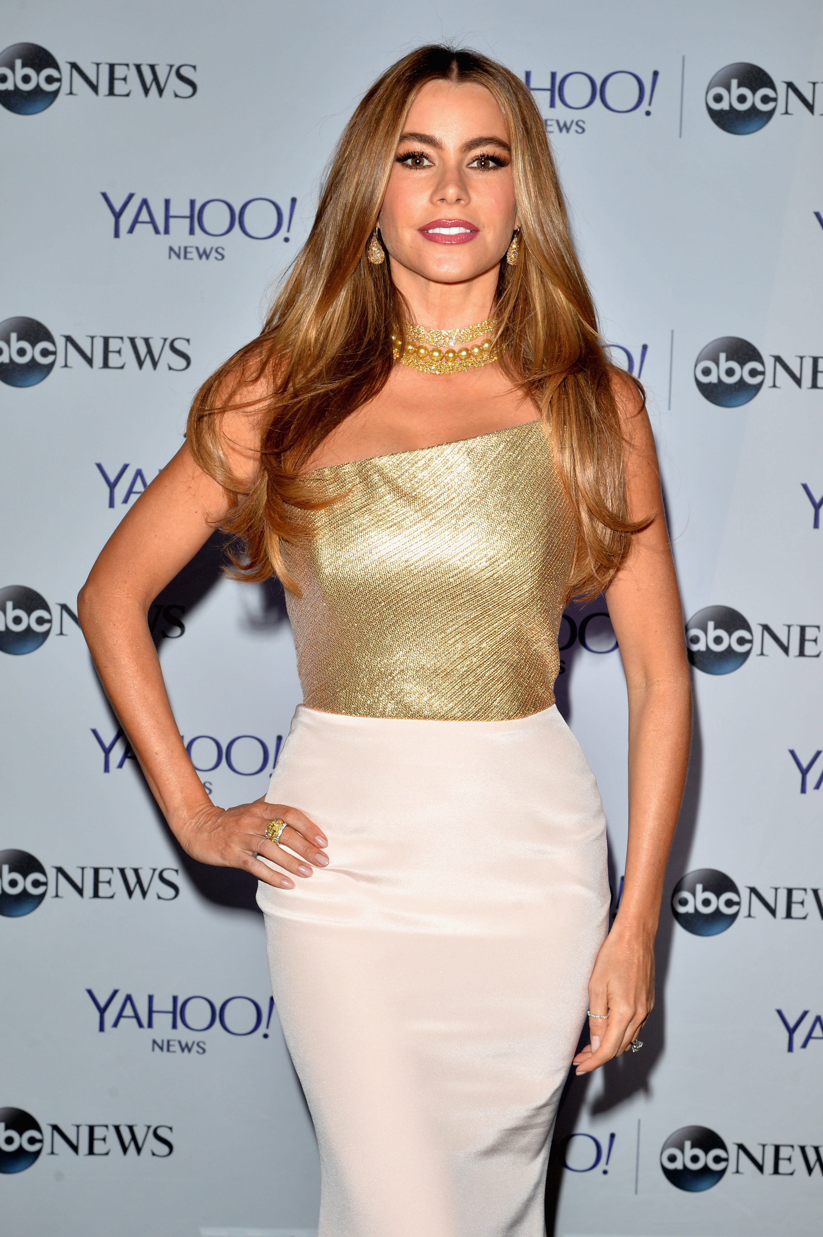 WASHINGTON, DC - MAY 03: Actress Sofía Vergara attends the Yahoo News/ABCNews Pre-White House Correspondents' dinner reception pre-party at Washington Hilton on May 3, 2014 in Washington, DC. (Photo by Andrew H. Walker/Getty Images for Yahoo News)